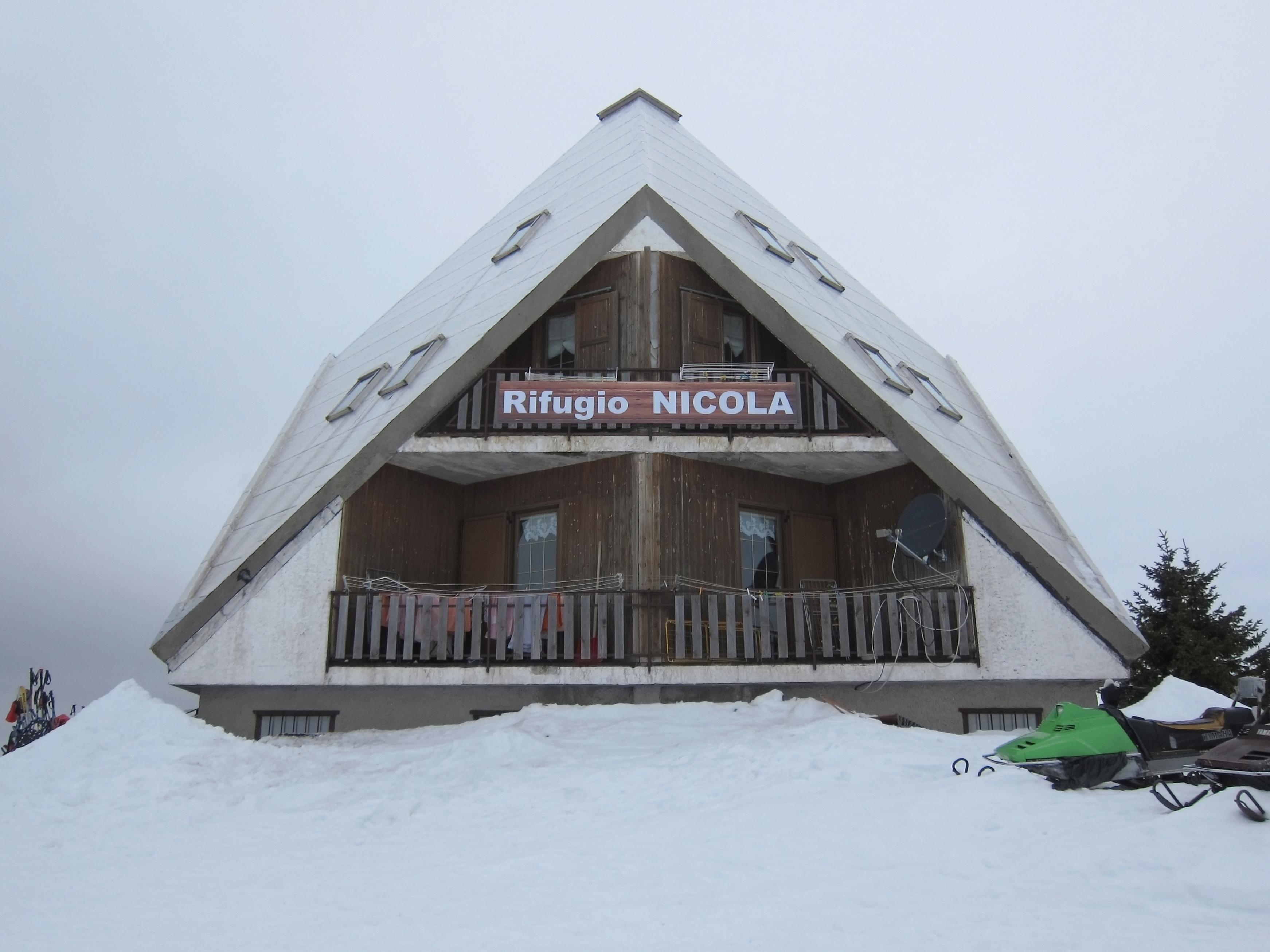 Picture of the alpine hut and resturant Rifugio Nicola under the snow. The hut is located at the Piani di Artavaggio, in Barzio Municipality, in the province of Lecco), in region Lombardy, in Italy. Picture taken on the 15th of december in 2019. - 2019-12-15